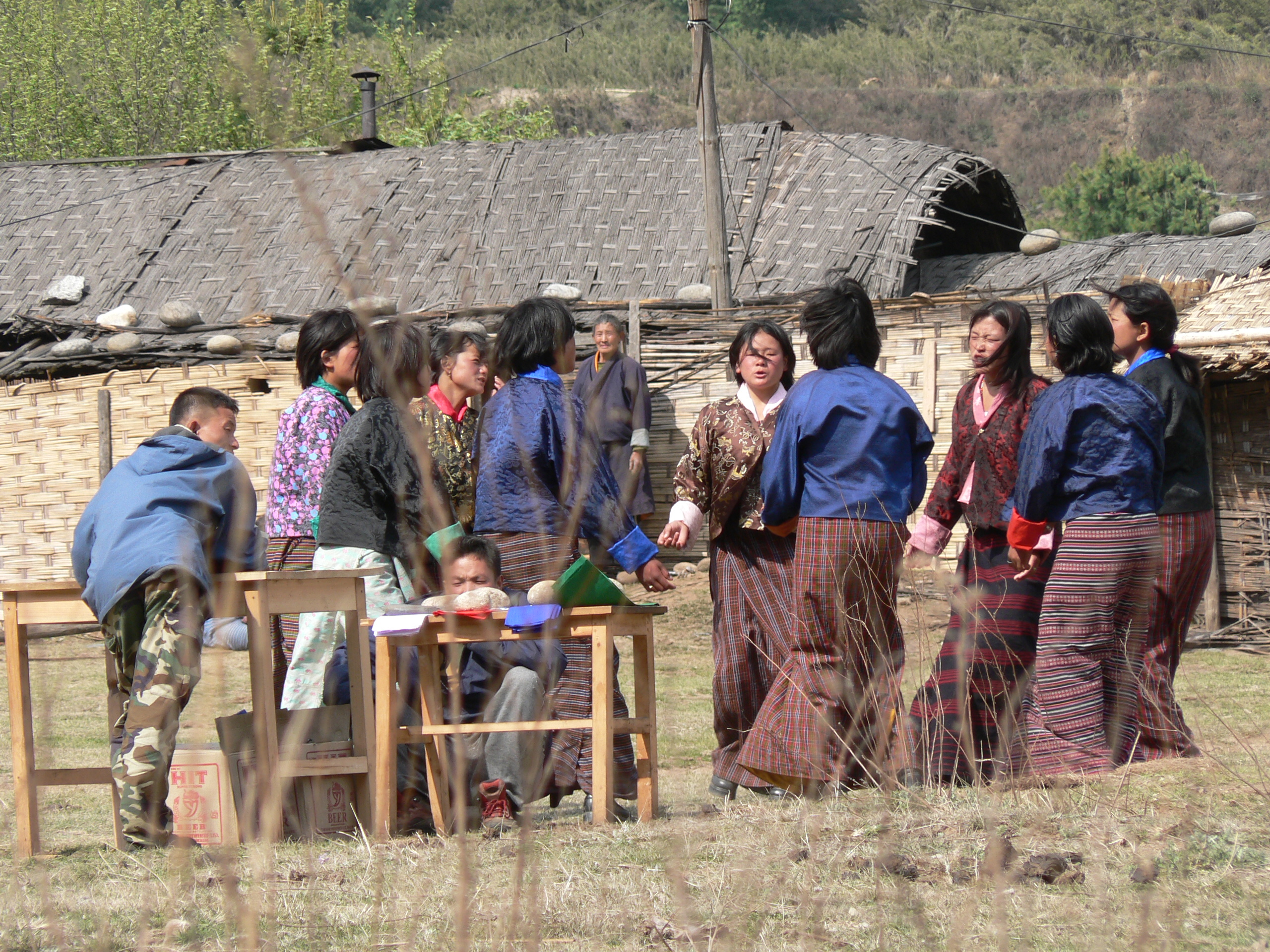 Young Bhutanese girls in the wind.